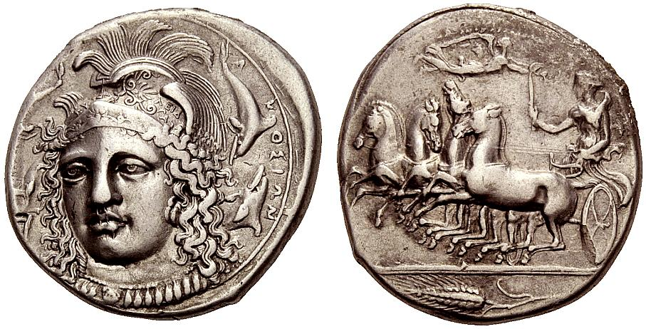 Syracuse Tetradrachm signed by Eukleidas circa 405-400, AR 16.99 g. Fast quadriga driven l. by female charioteer, holding reins in her l. hand and raising a flaming torch in her r.; above, Nike flying r. to crown her; in exergue, ear of barley with stalk. ΣΥ – Ρ – ΑΚ – ΟΣΙΩΝ (Syrakosiōn i.e. "of the Syrakusans") Head of Athena facing three-quarters l., wearing triple-crested Attic helmet ornamented with palm fronds, double-hook earrings and necklace of pendant acorns with central medallion; across the bowl of the helmet the signature EYK – ΛEIΔ / A. Around four dolphins.